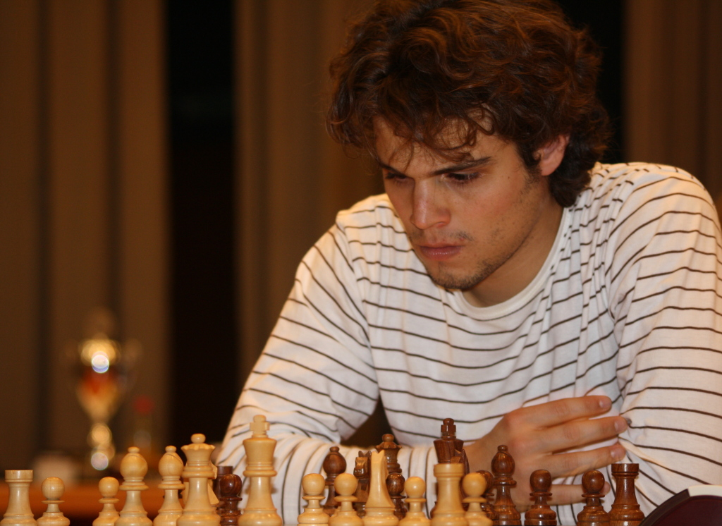 GM Fidel Corrales Jimenez Cuba, 13. Int. Neckar-Open 2009